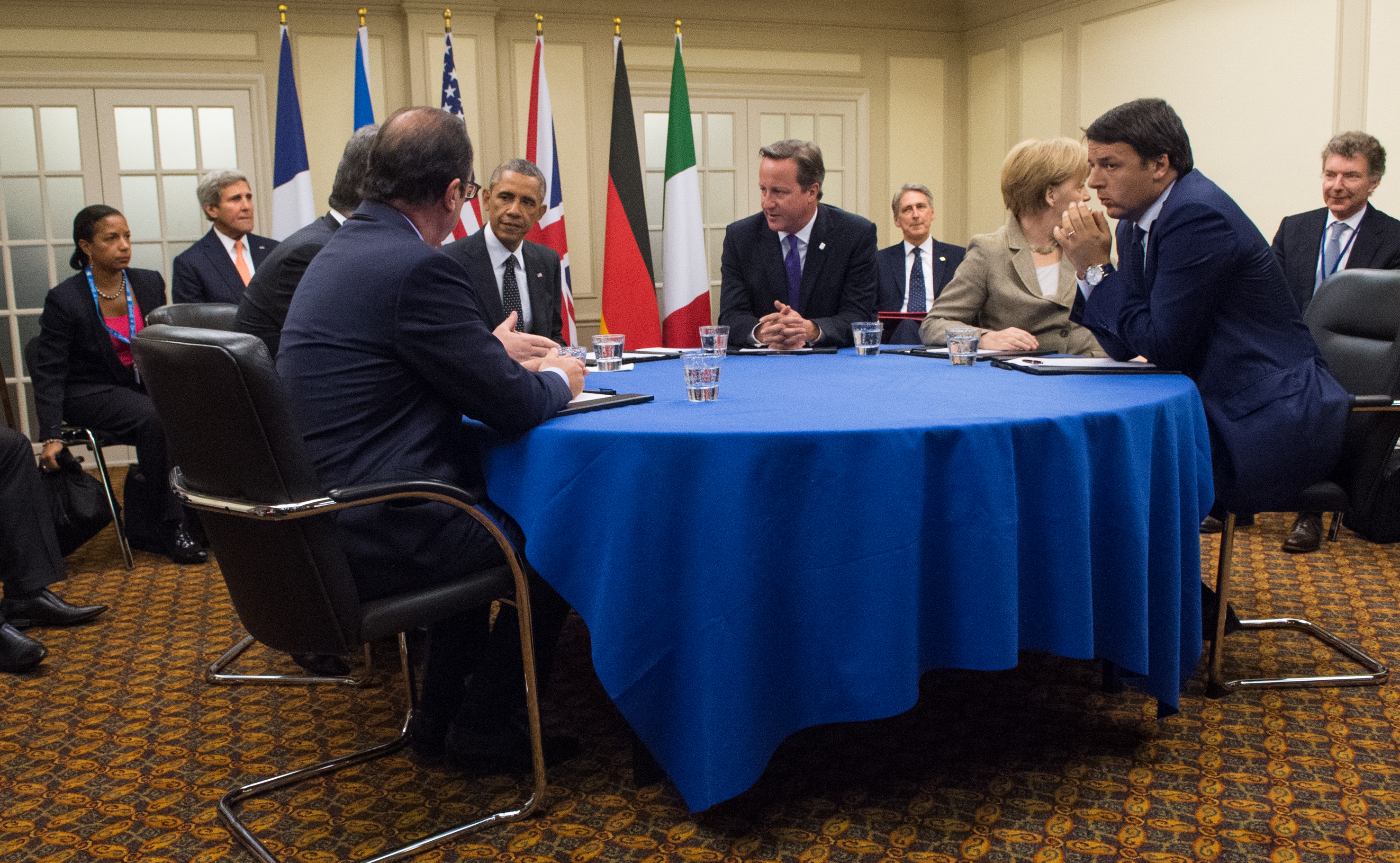 National Security Adviser Susan Rice and U.S. Secretary of State John Kerry listen as President Obama joins European leaders in a discussion with Ukrainian President Petro Poroshenko before the NATO Summit in Newport, Wales, United Kingdom on September 4, 2014. [State Department photo/ Public Domain]